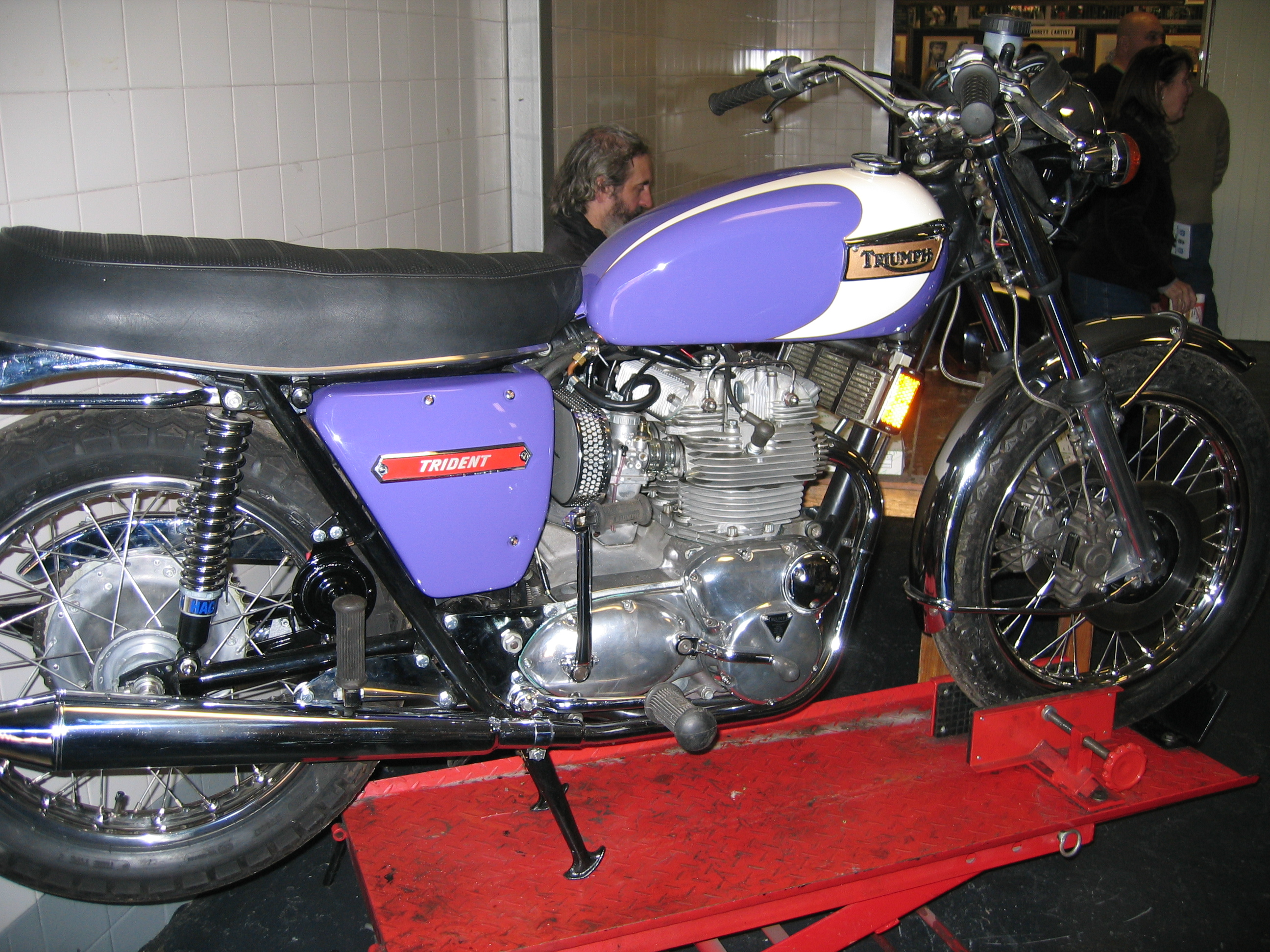 The Triumph Trident. Don't be put off by the colour.